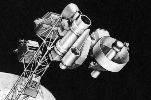 Voyager spacecraft scan platform